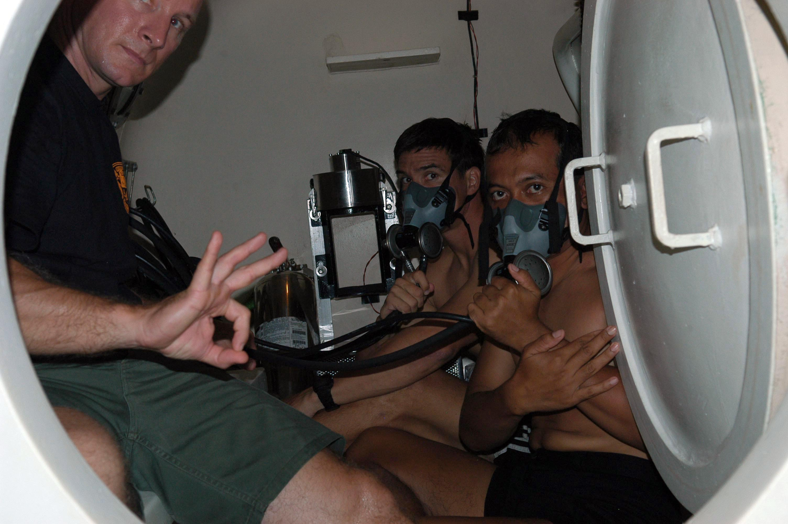 SURABAYA, Indonesia (July 22, 2008) Chief Hospital Corpsman Garth Sinclair, assigned to Mobile Diving and Salvage Unit One (MDSU) 1, gives the "OK" signal during a decompression chamber drill performed aboard the Military Sealift Command rescue and salvage ship USNS Safeguard (T-ARS 50) for a joint dive in Surabaya Harbor. The diving exercise is part of a Naval Engagement Activity (NEA) between the United States and Indonesia. The NEA is part of an annual series of bilateral maritime training exercises designed to build relationships and enhance the operational readiness of the participating forces between the U.S. and several Southeast Asian nations. (U.S. Navy photo by Mass Communication Specialist 1st Class Kim McLendon/Released)